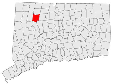 I made this.